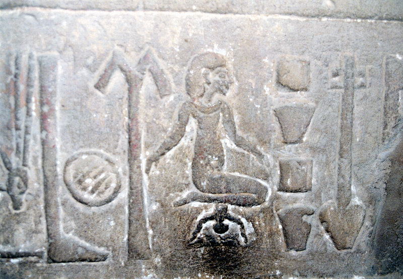 Childbirth scene, Kom Ombo Temple partial relief.